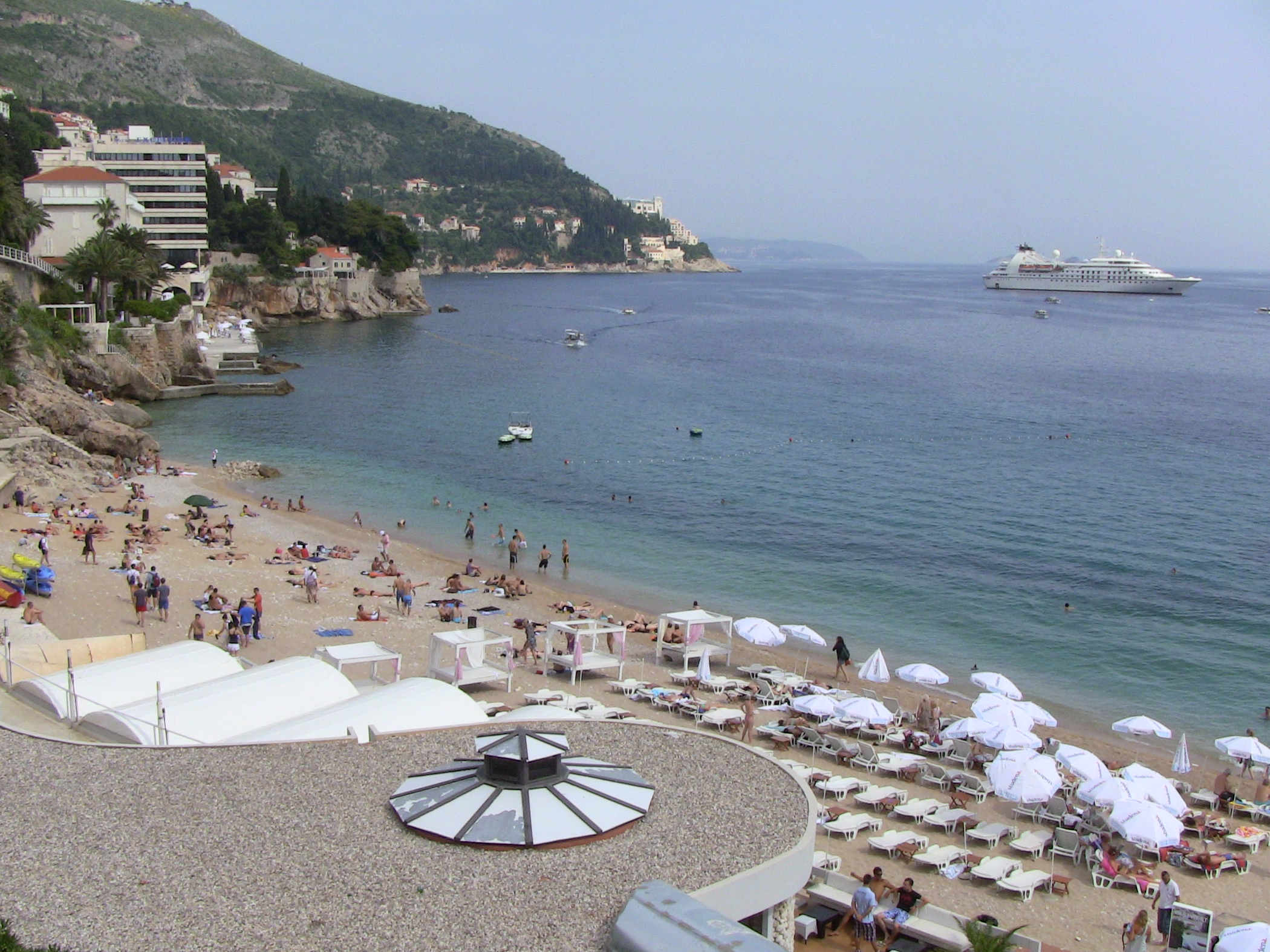 Banje beach, Dubrovnik in Republic of Croatia Summer 2010